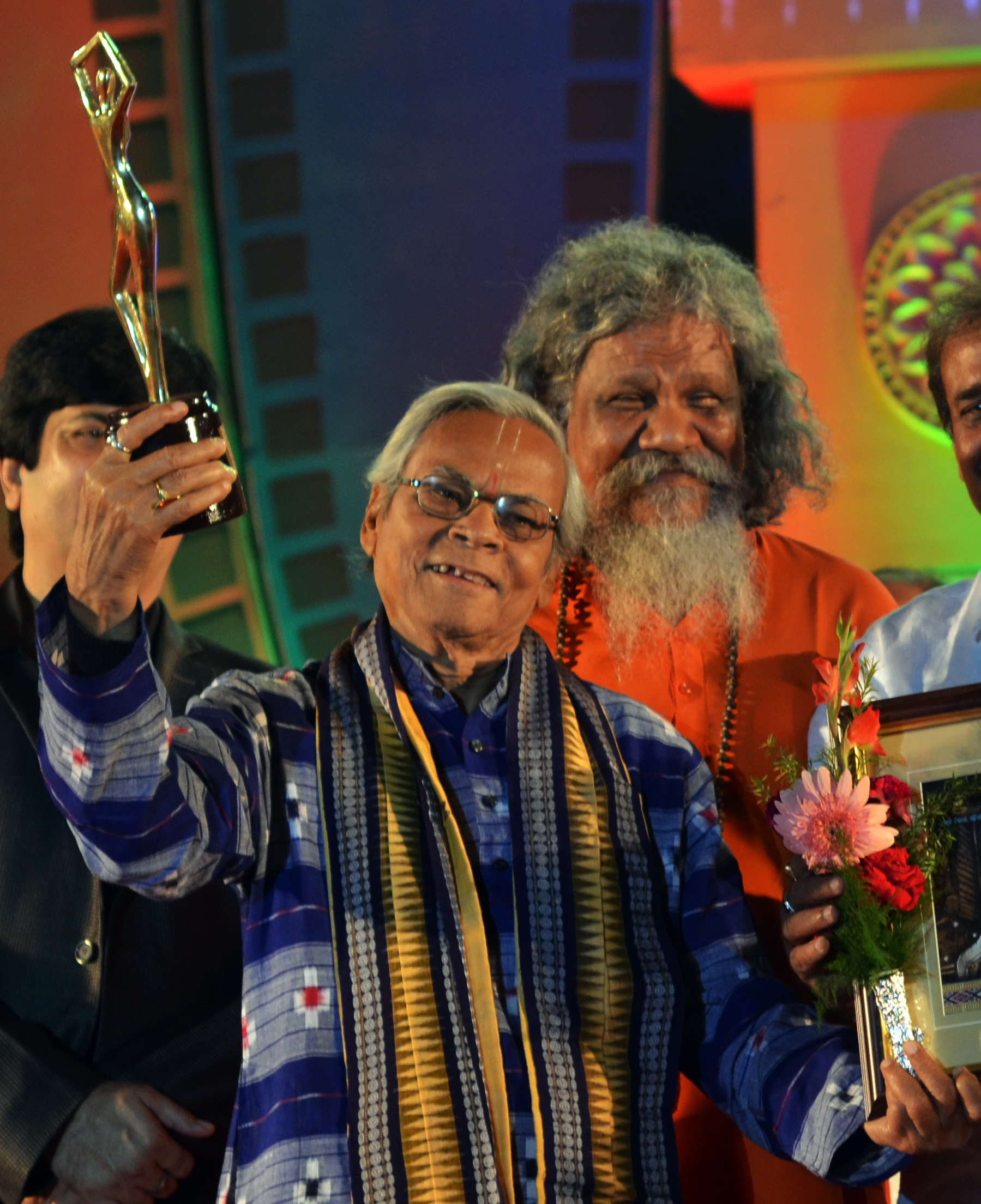 Atal Bihari Panda, Ashok Panda, Siddhanta Mahapatra and Arabinda Padhee during State Film Awards 2014 at Utkal Mandap, Bhubaneswar, Odisha.